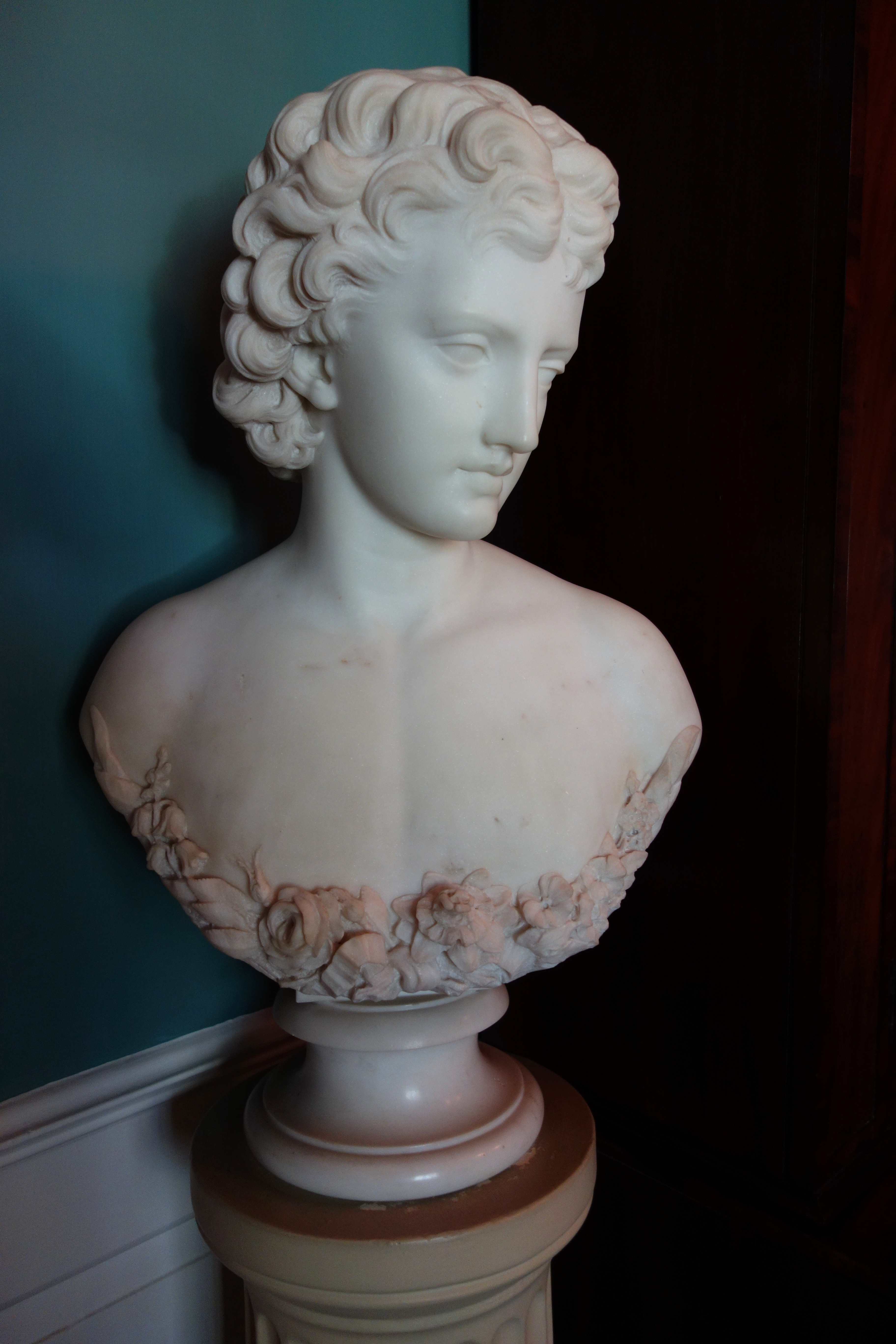 Sculpture in the Longfellow National Historic Site, Cambridge, Massachusetts, USA. This artwork is old enough so that it is in the public domain. Photography was permitted without restriction in the house.